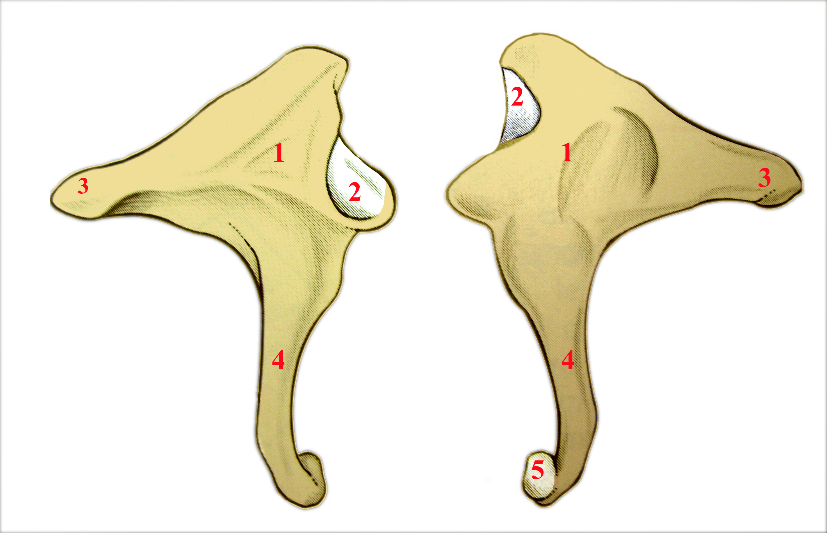 Incus : 1) Body 2) Face for malleus 3) Short crus 4) Long crus 5) Lenticular process